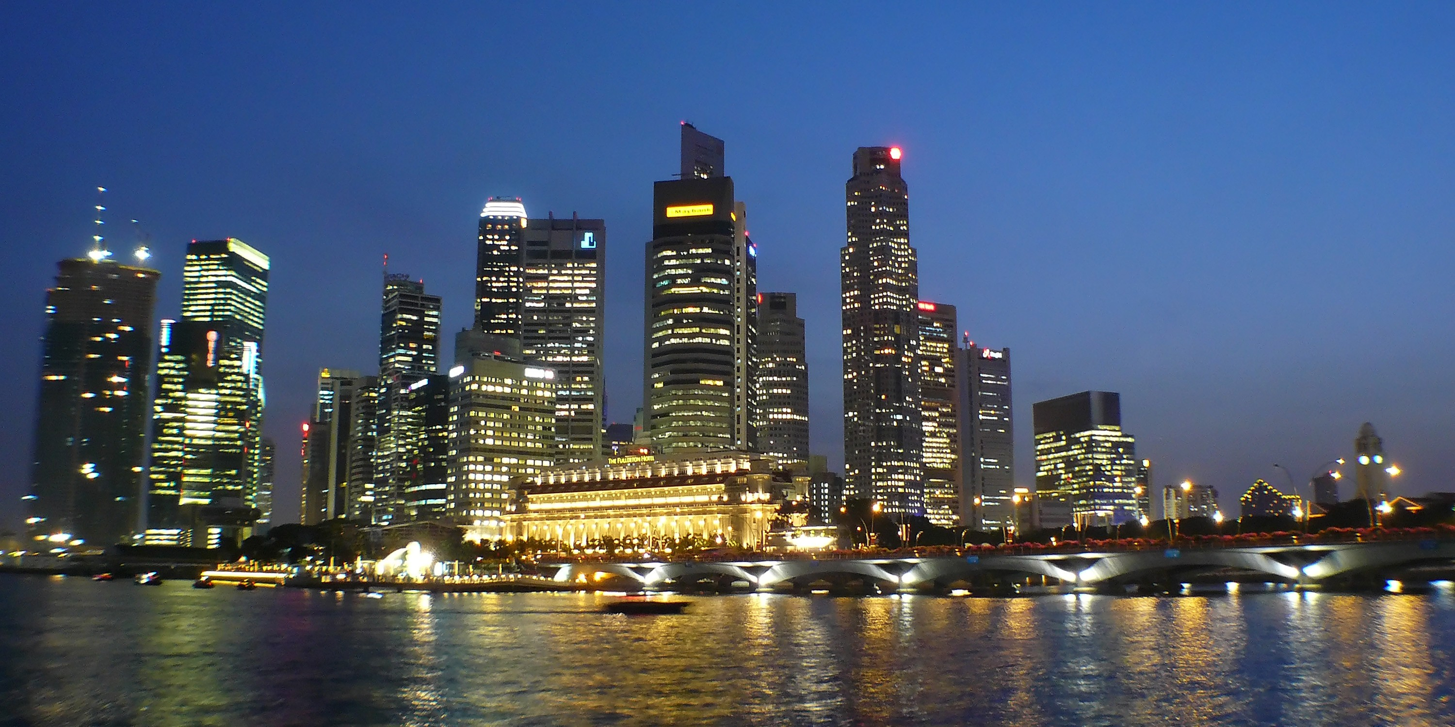 Taken from the other side of the river.